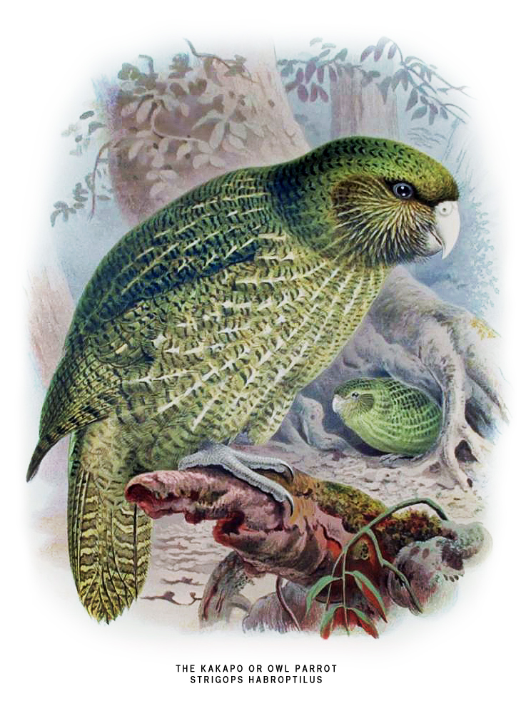 By J. G. Keulemans, in W.L. Buller's A History of the Birds of New Zealand, 2nd edition. Published 1888.